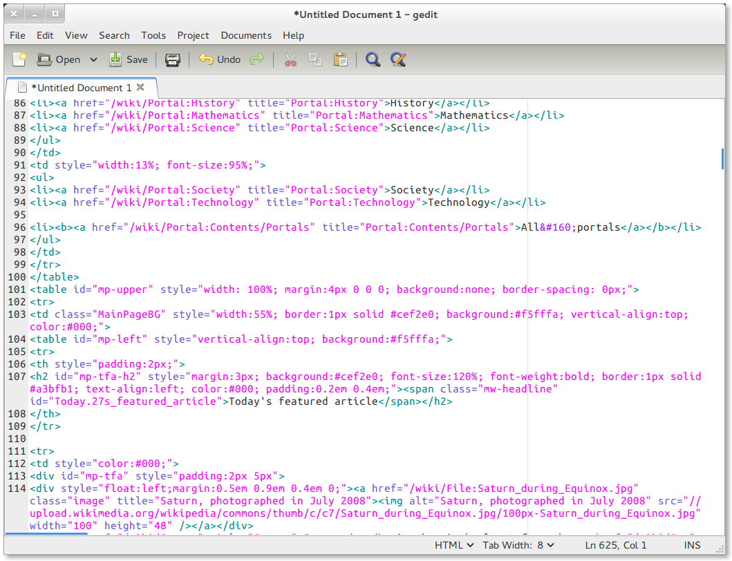 A screenshot of Gedit 3.2.1, using the GNOME 3 Adwaita theme.